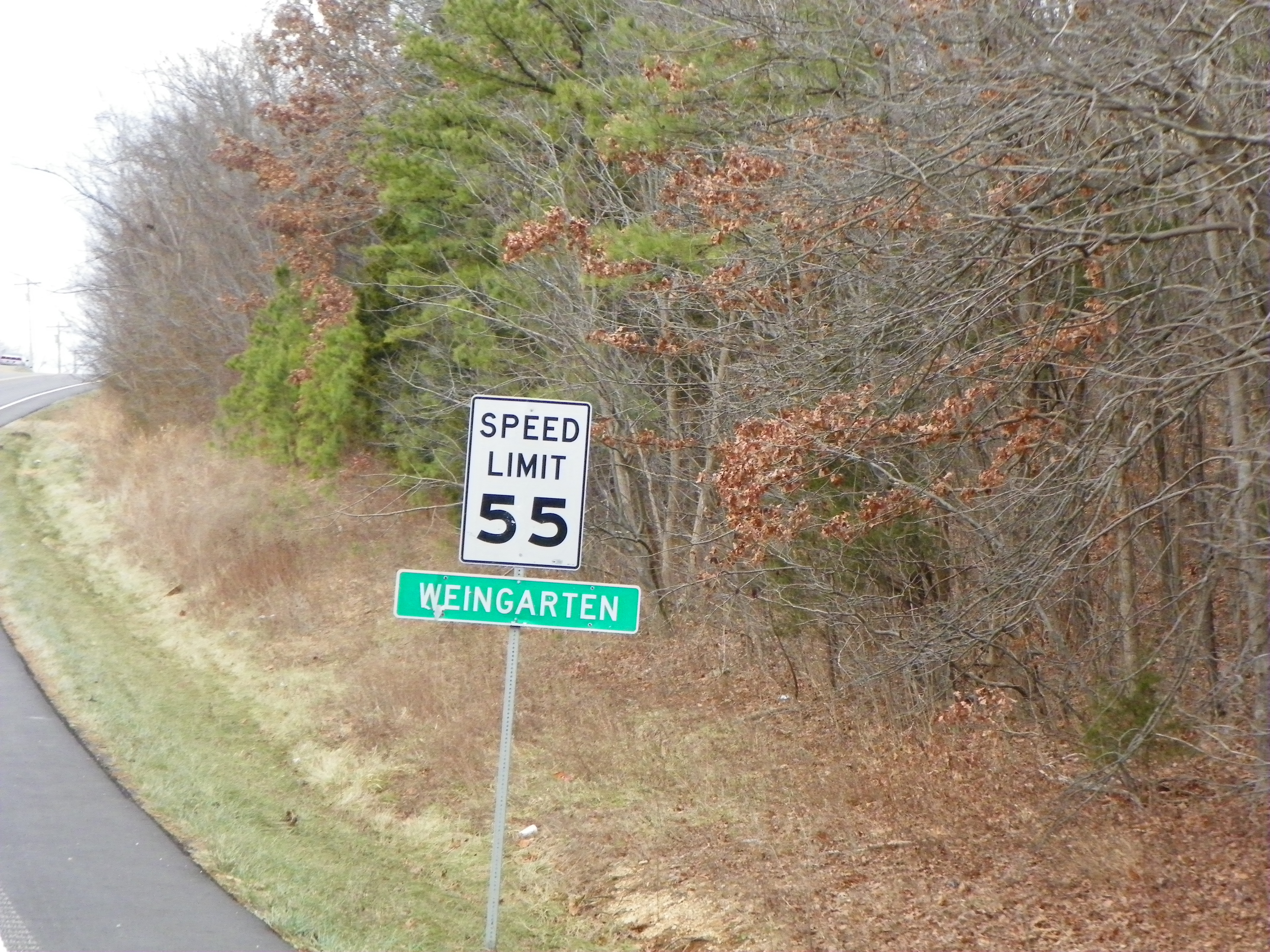 Weingarten, Missouri road sign from route 32